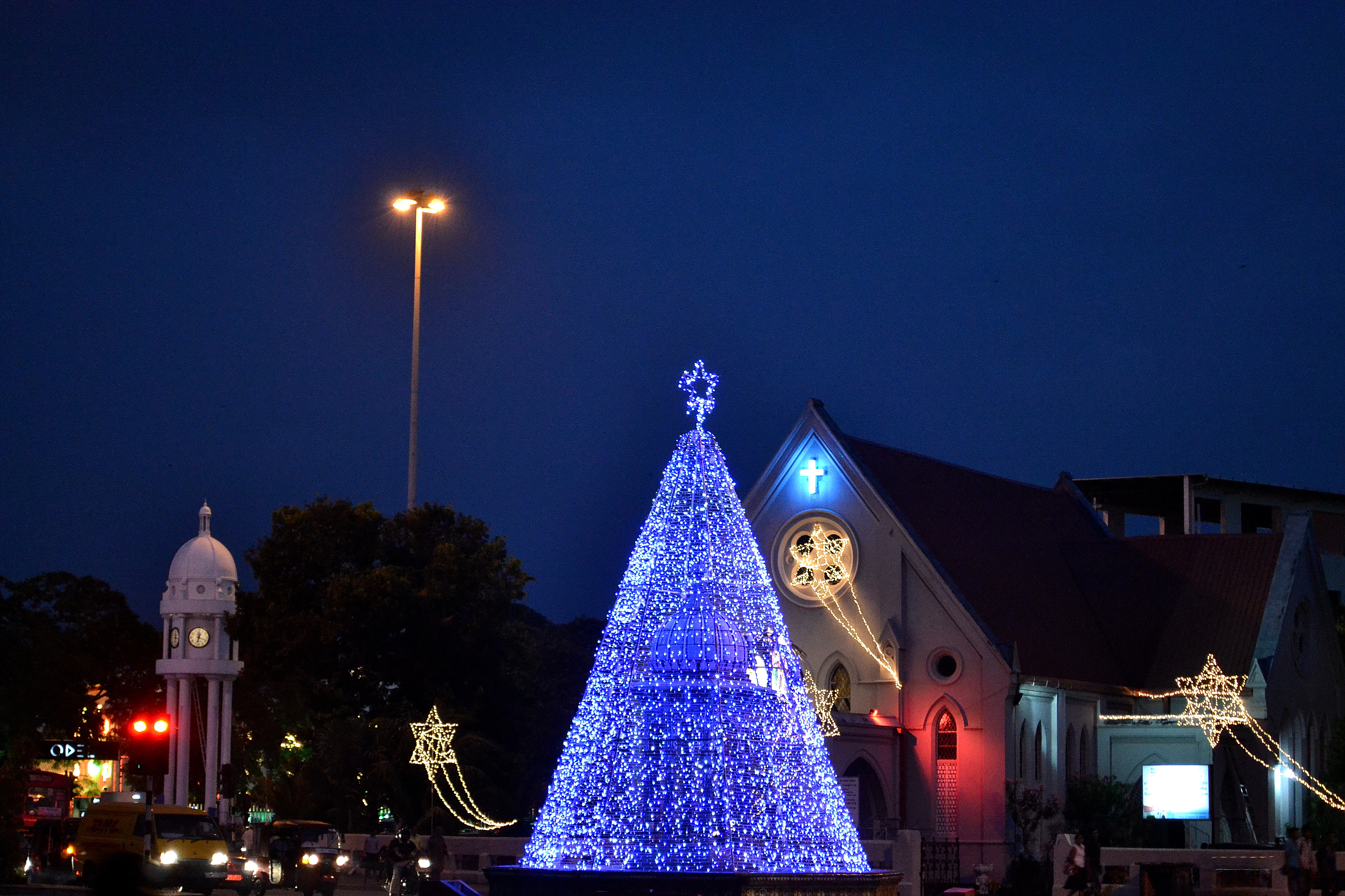 Christmas tree at Litpon Circle, Colombo, Sri Lanka.